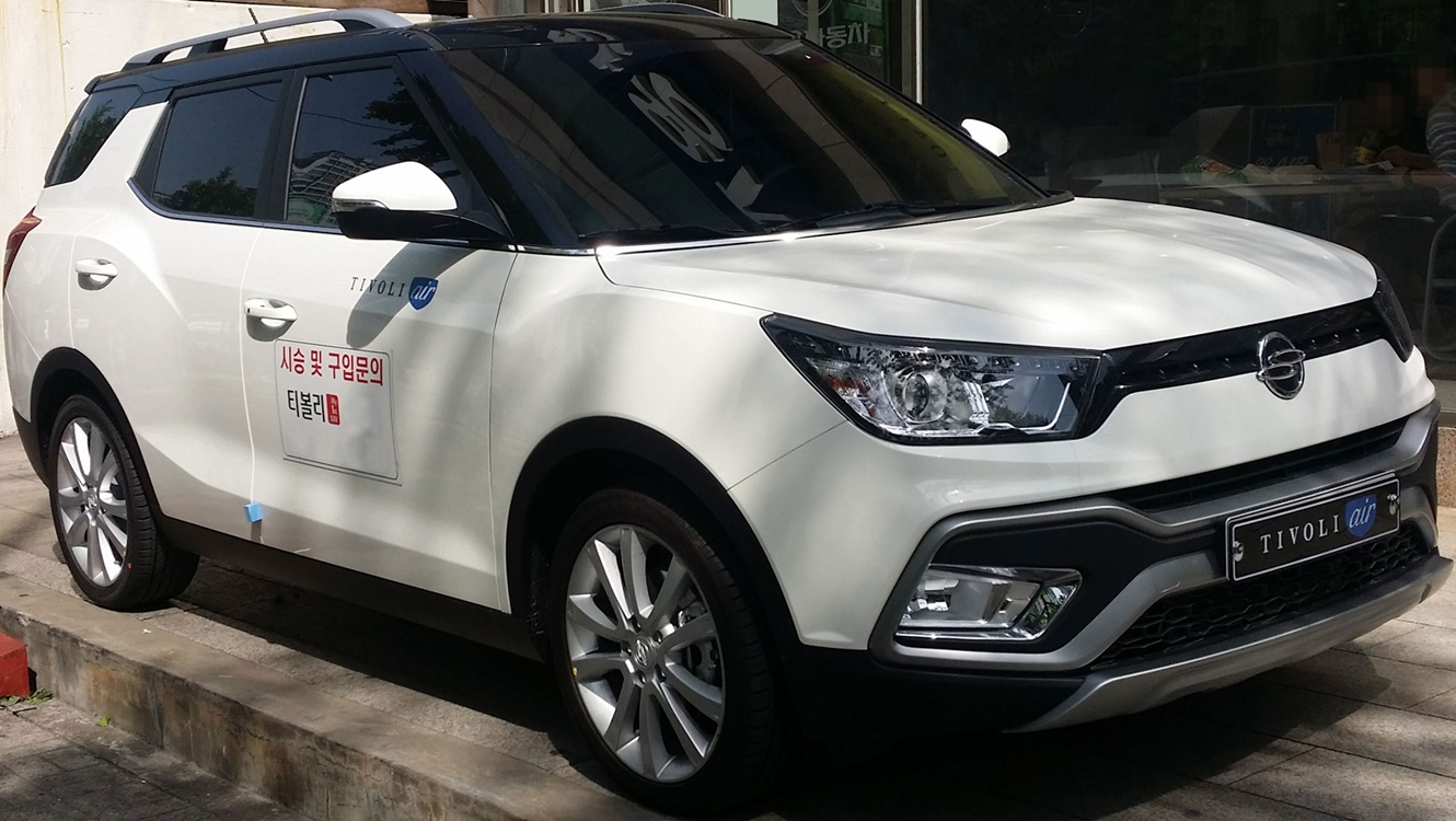 SsangYong Tivoli Air